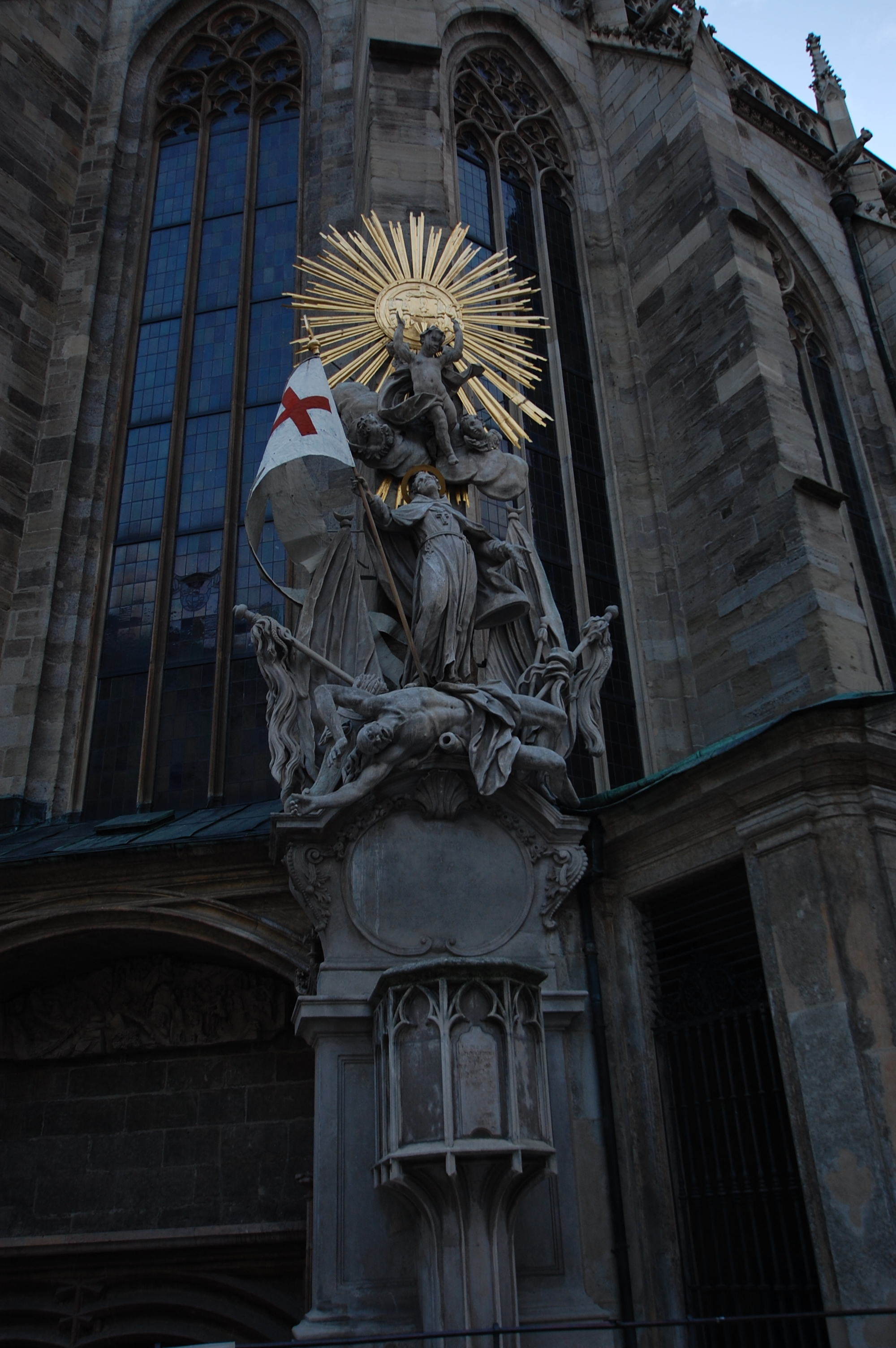 Pulpit of John Capistrano